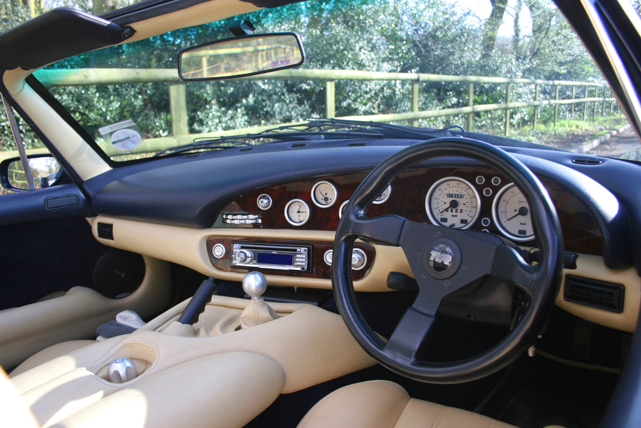 TVR Chimaera interior